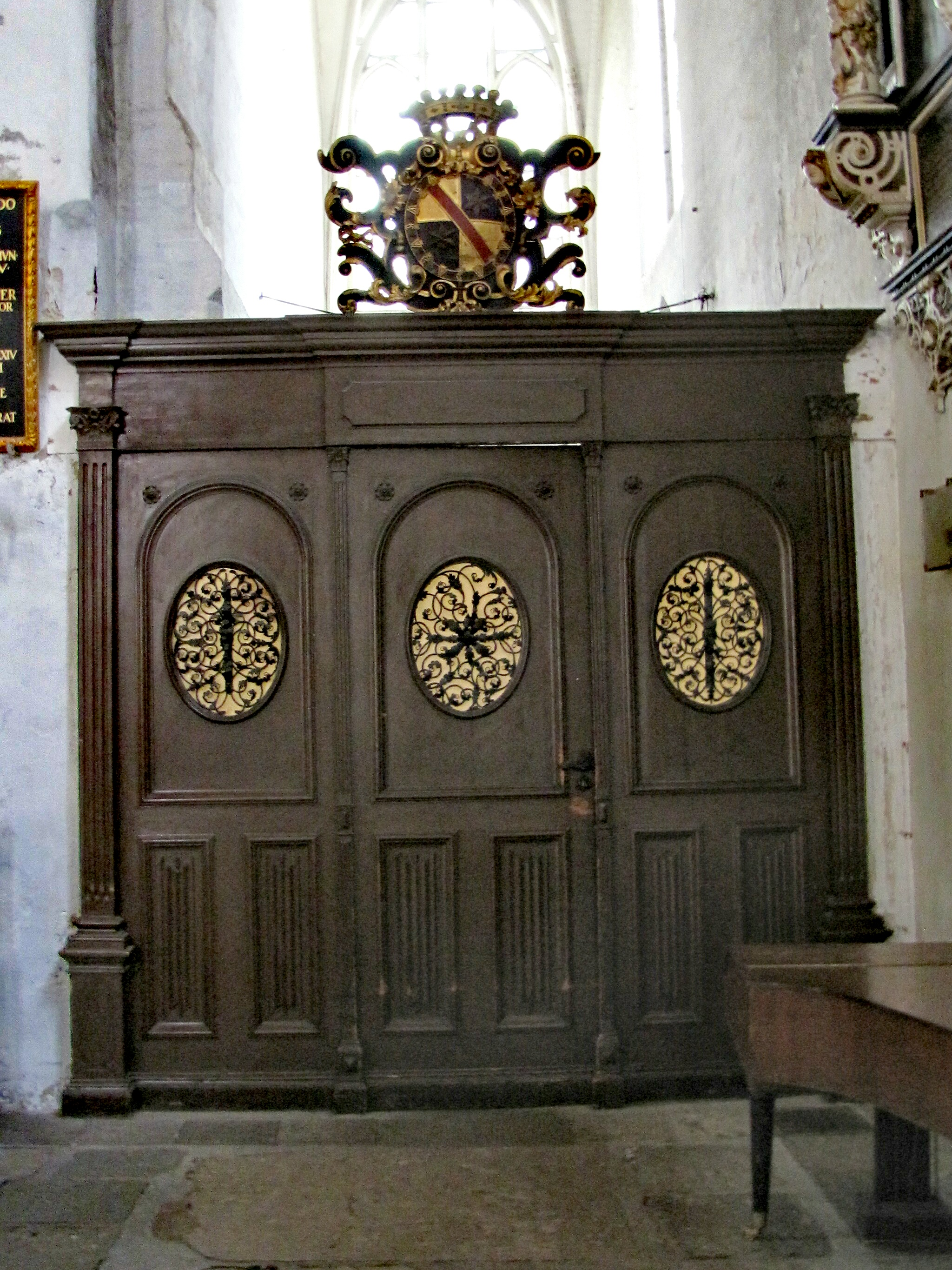 Breitenau-Kapelle, burial chapel of de;Christoph Gensch von Breitenau and members of his extended family in St. Aegidien, Lübeck